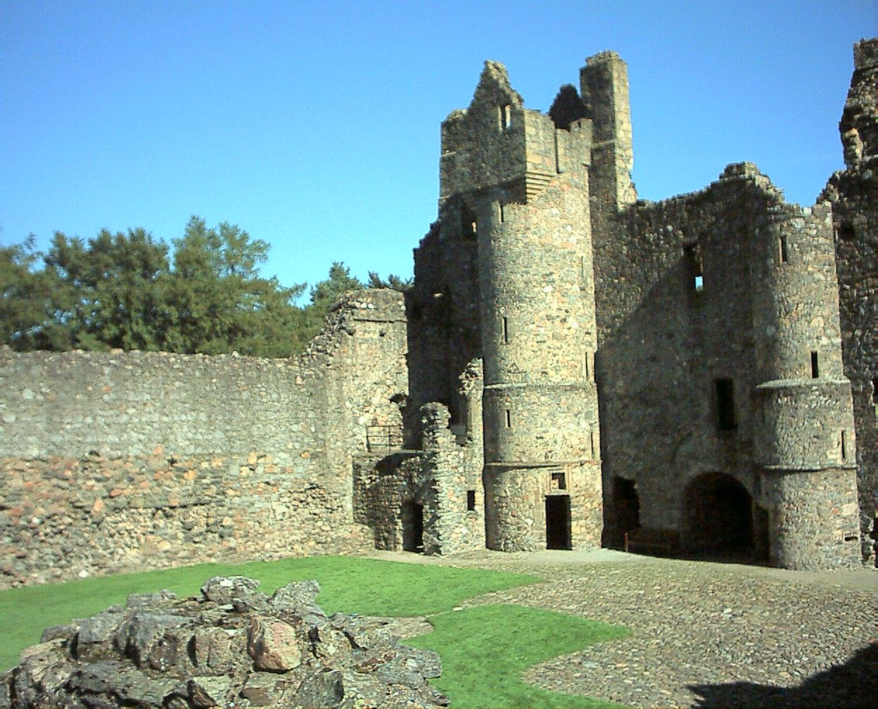 Balvenie Castle, near Dufftown, Scotland